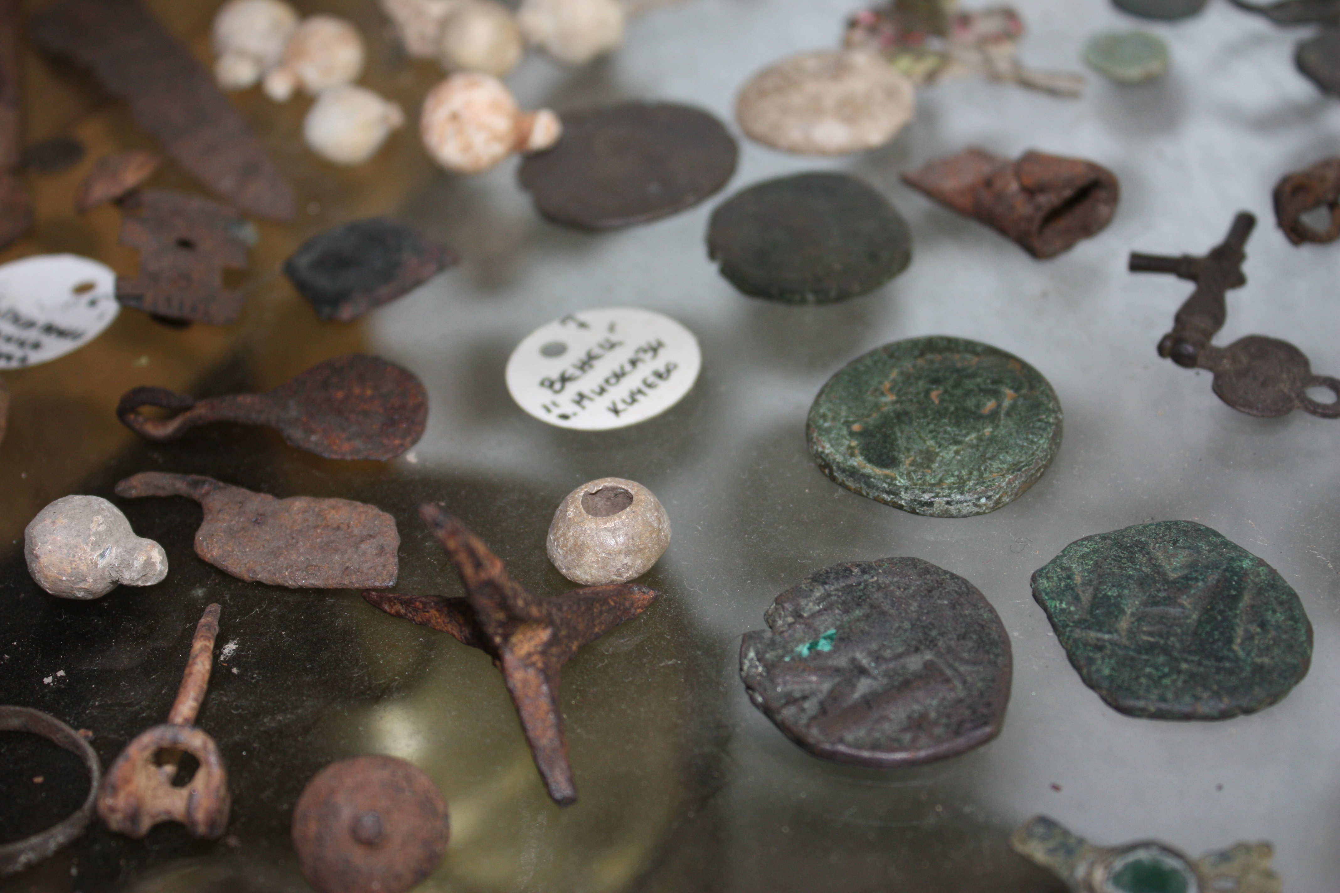 The World’s Smallest Ethnological Museum in Džepčište near Tetovo in Macedonia